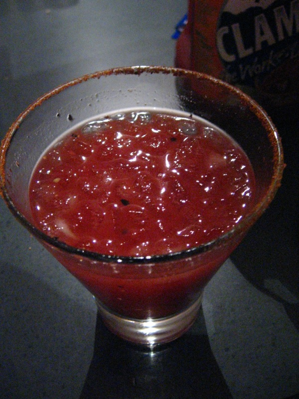 A Caesar sometimes referred to as a Bloody Caesar,[1] after the similar Bloody Mary, is a cocktail popular mainly in Canada. It typically contains vodka, clamato (a blend of tomato juice and clam broth), Worcestershire sauce, Tabasco sauce, and is served on the rocks in a large, celery salt-rimmed glass, and typically garnished with a stalk of celery and wedge of lime. Sorry, this photo is missing the lime and celery. Hail, Caesar!Hail, Caesar!